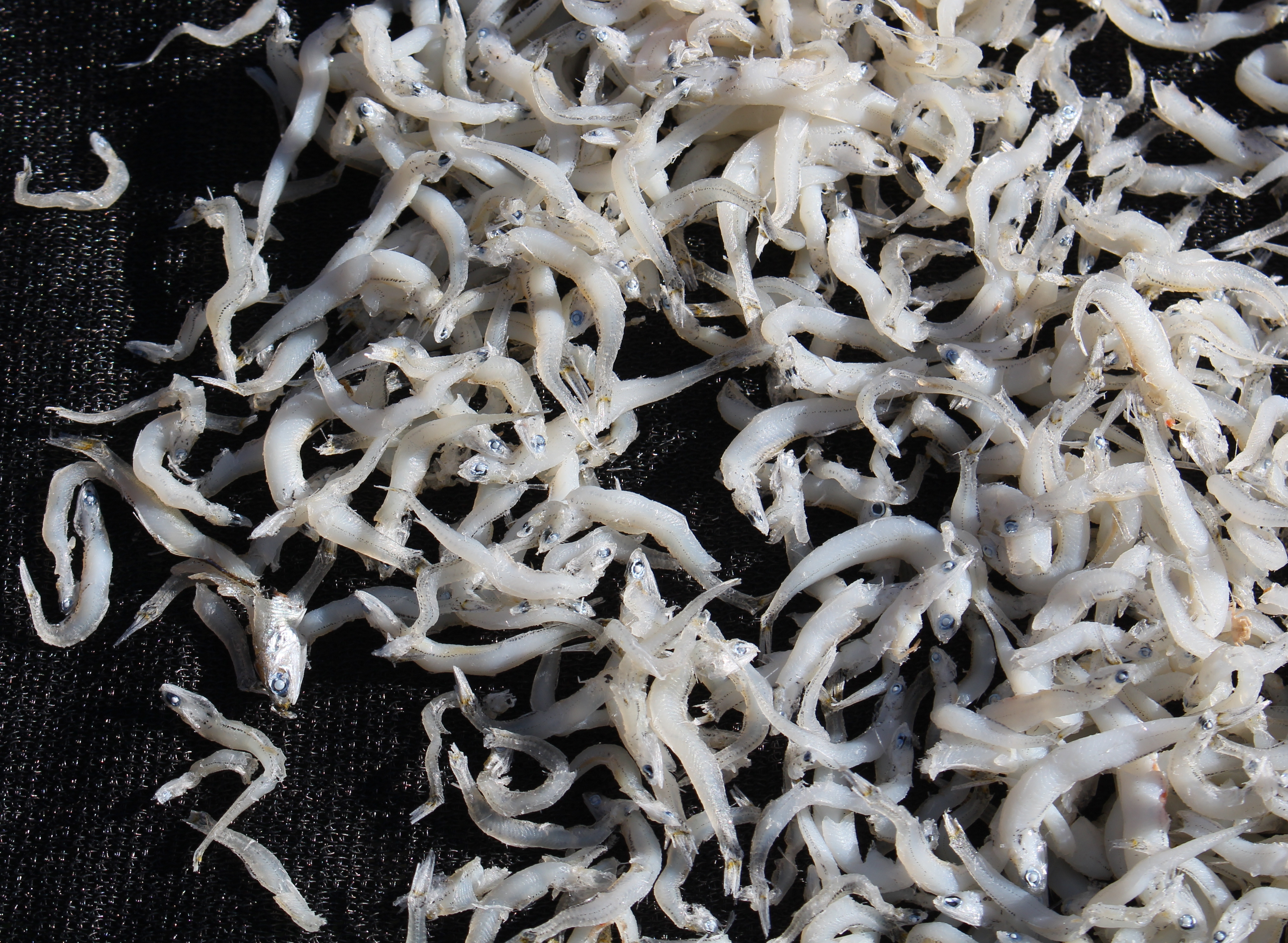 Chirimenjako dried in Tōshi Island, Toba, Mie prefecture, Japan.